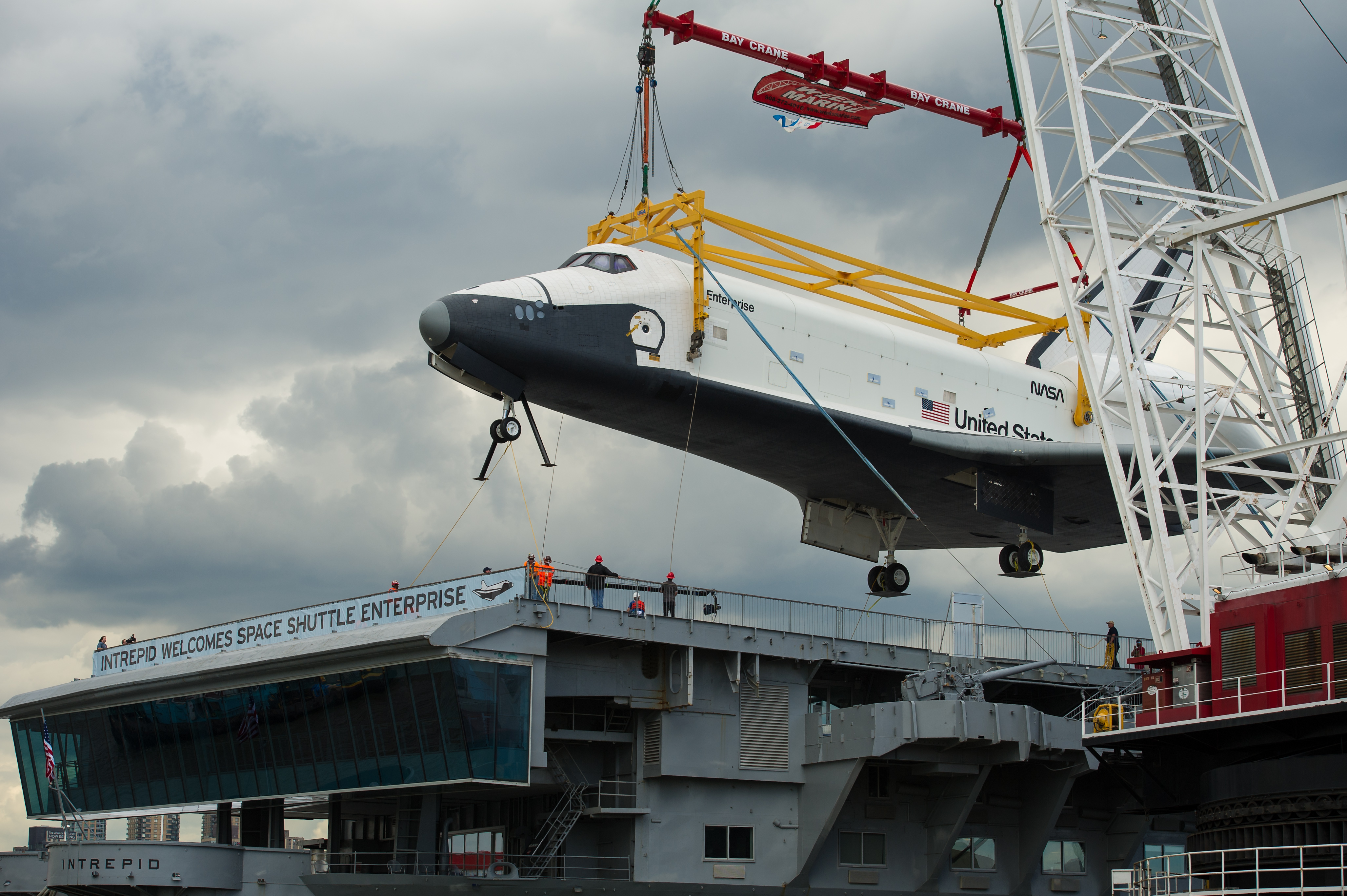 Space Shuttle Enterprise Move to Intrepid (201206060026HQ) The space shuttle Enterprise is lifted off of a barge and onto the Intrepid Sea, Air and Space Museum where it will be on permanent display, Wednesday, June 6, 2012 in New York. Photo Credit: (NASA/Bill Ingalls)